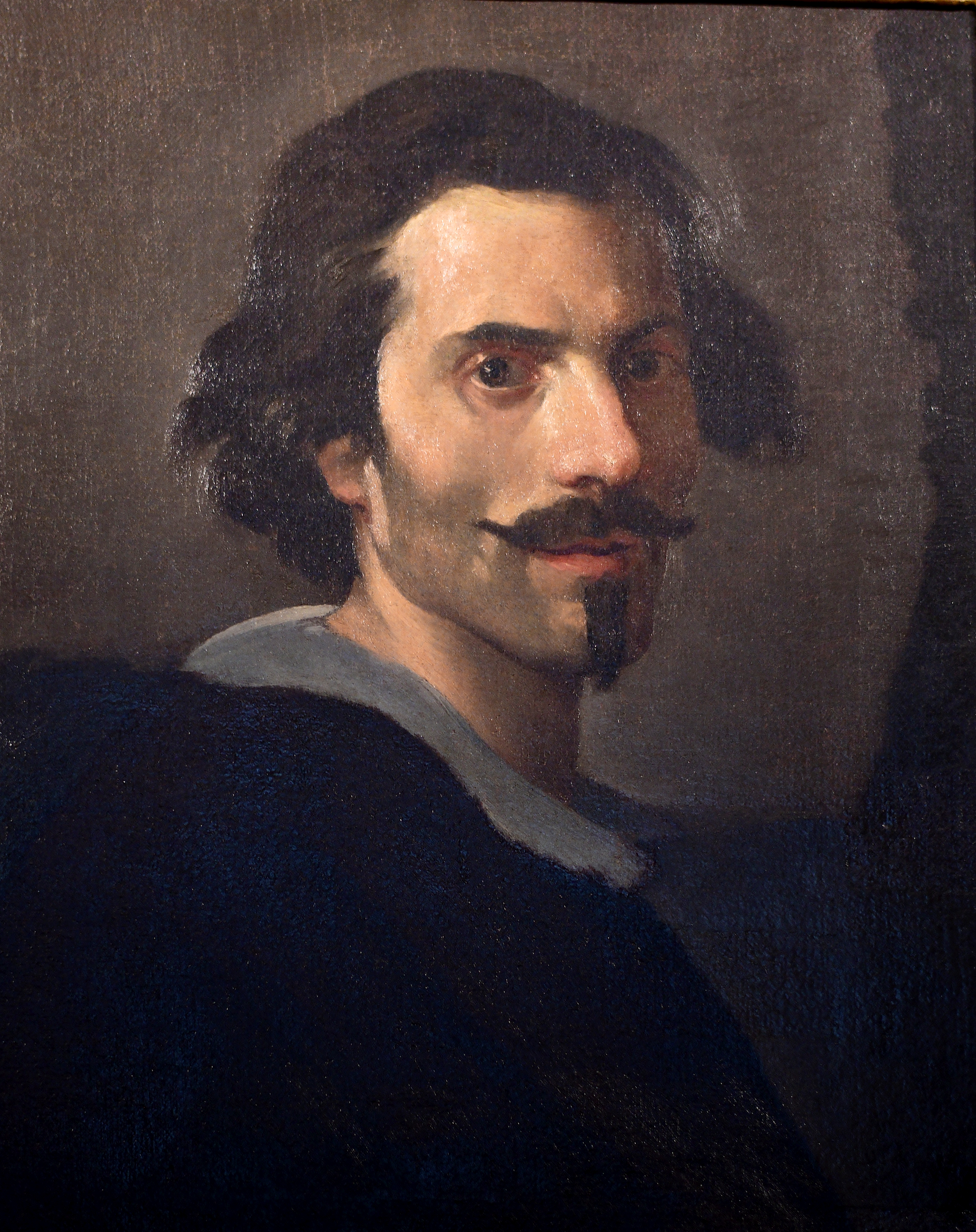 Gian lorenzo bernini portrait